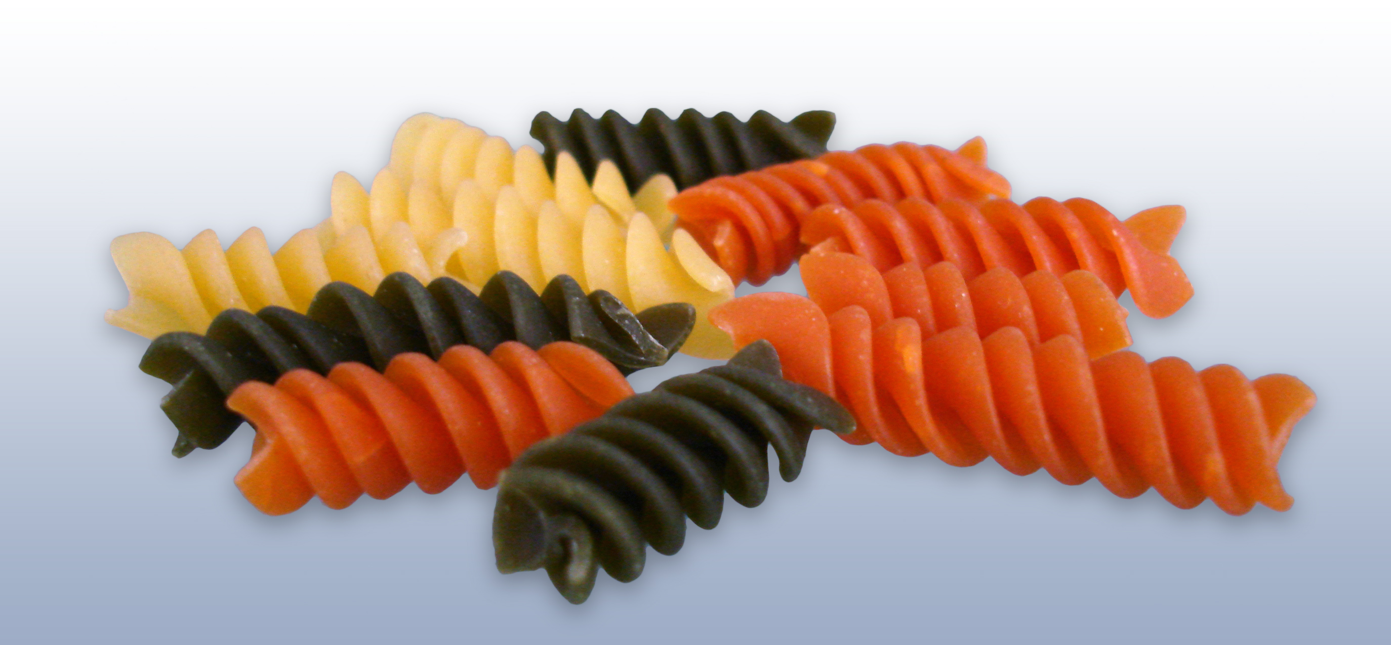 Rotini, yellow, red, and green, uncooked